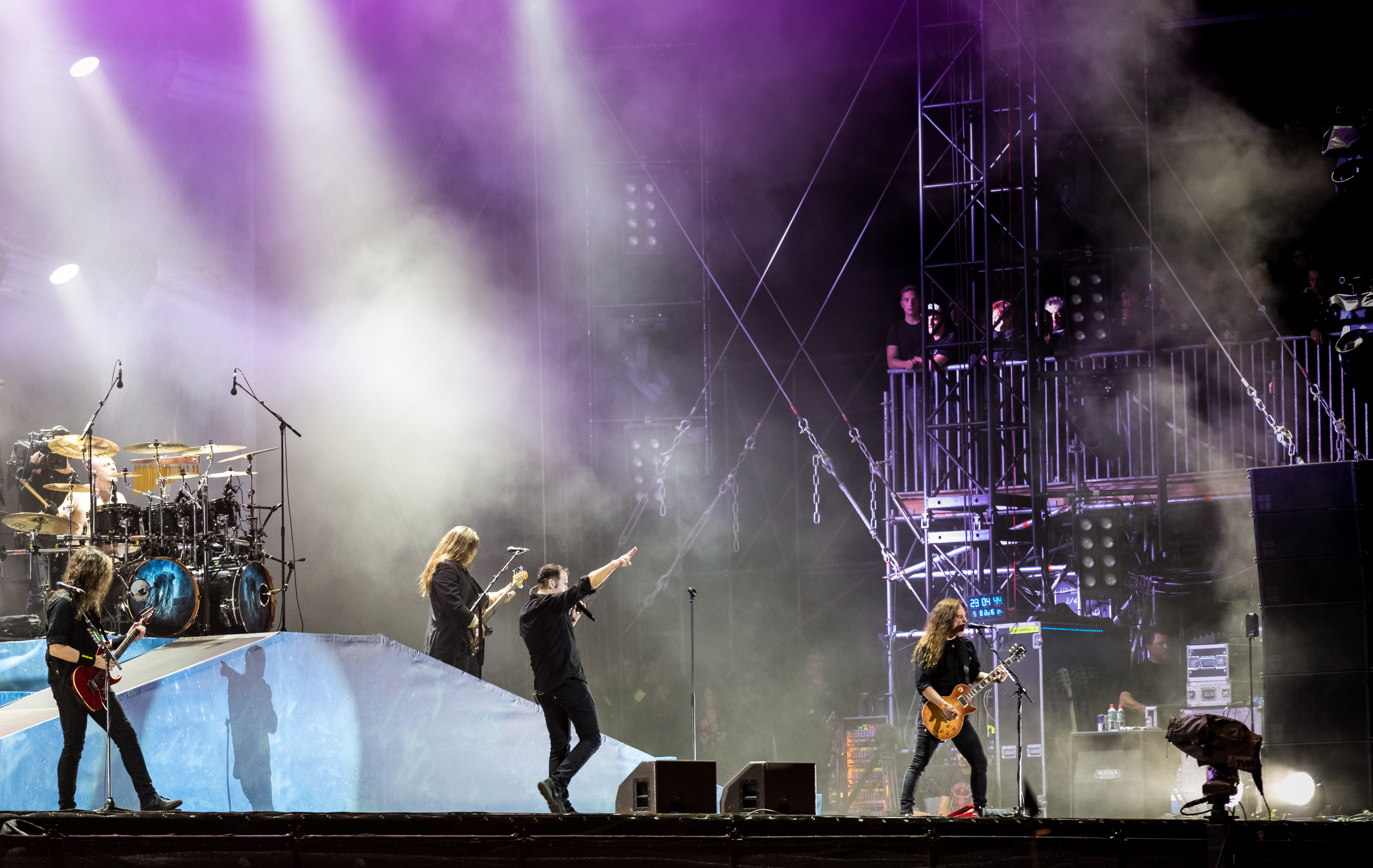 Blind Guardian - Wacken Open Air 2016